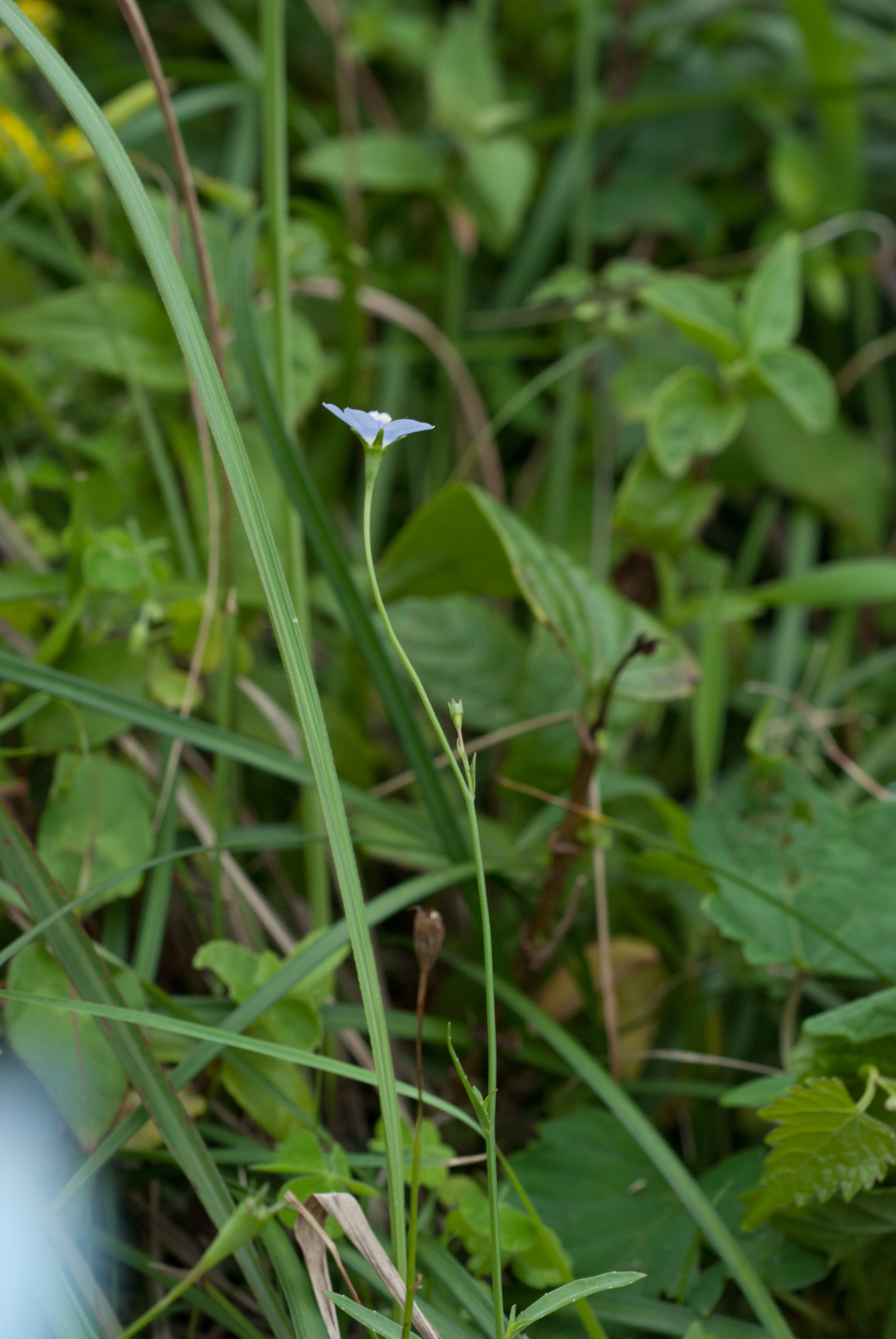 Wahlenbergia marginata.